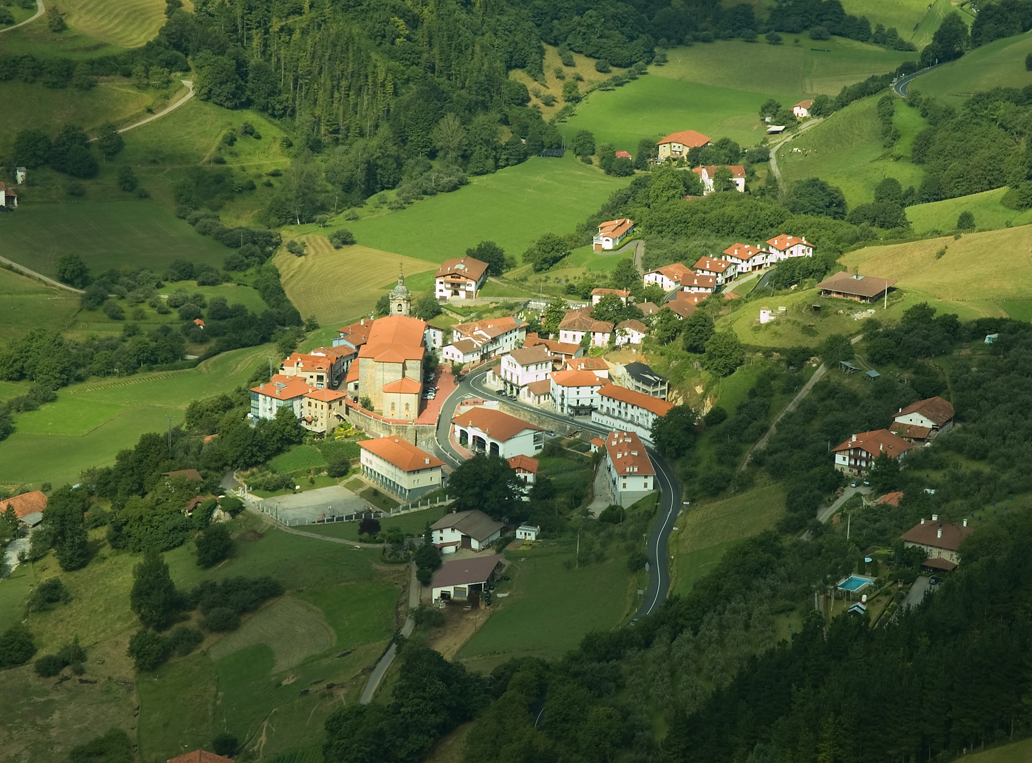 Errezil.